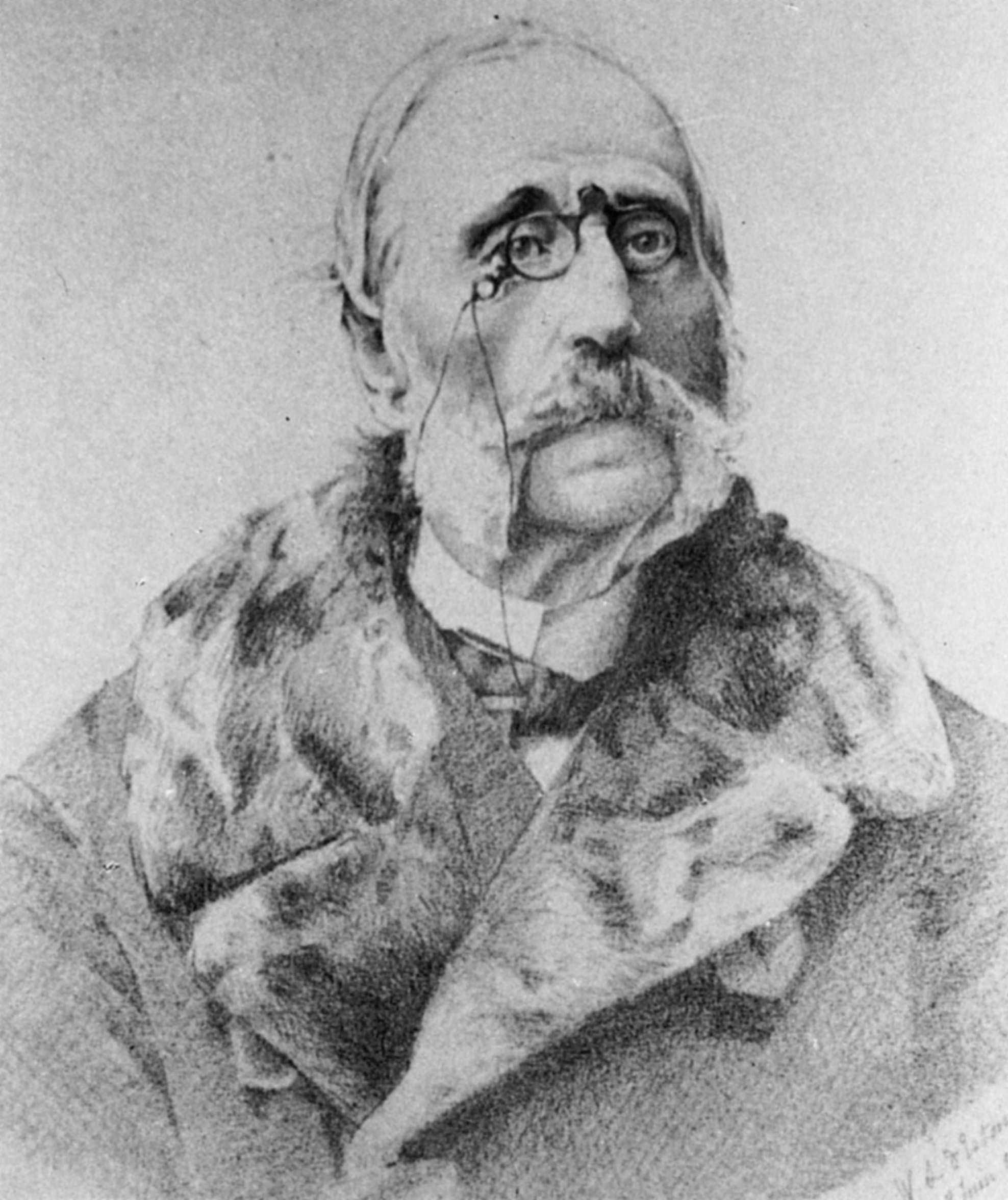 Sketch of the French architect Hippolyte Destailleur (1822–1893) by his son